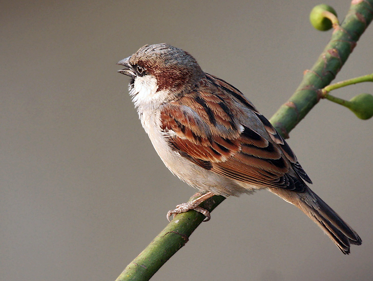 A male House Sparrow (Passer domesticus) in Kolkata, West Bengal, India.